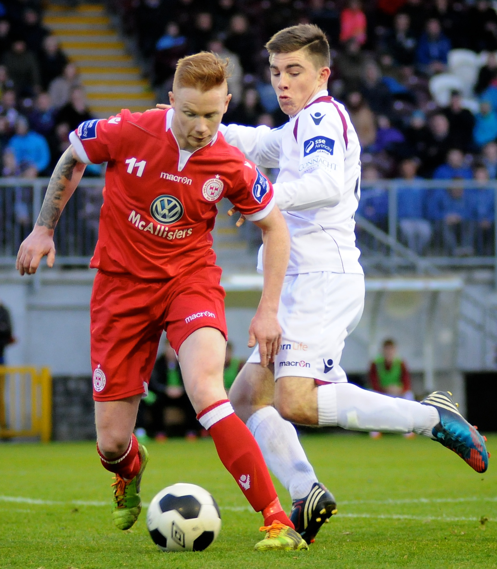 Keith Quinn of Shelbourne evades the attentions of Galway FC's Ryan Manning in the 2014 League of Ireland First Division at Eamon Deacy Park